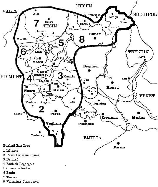 Map showing the different dialects of Lombardian